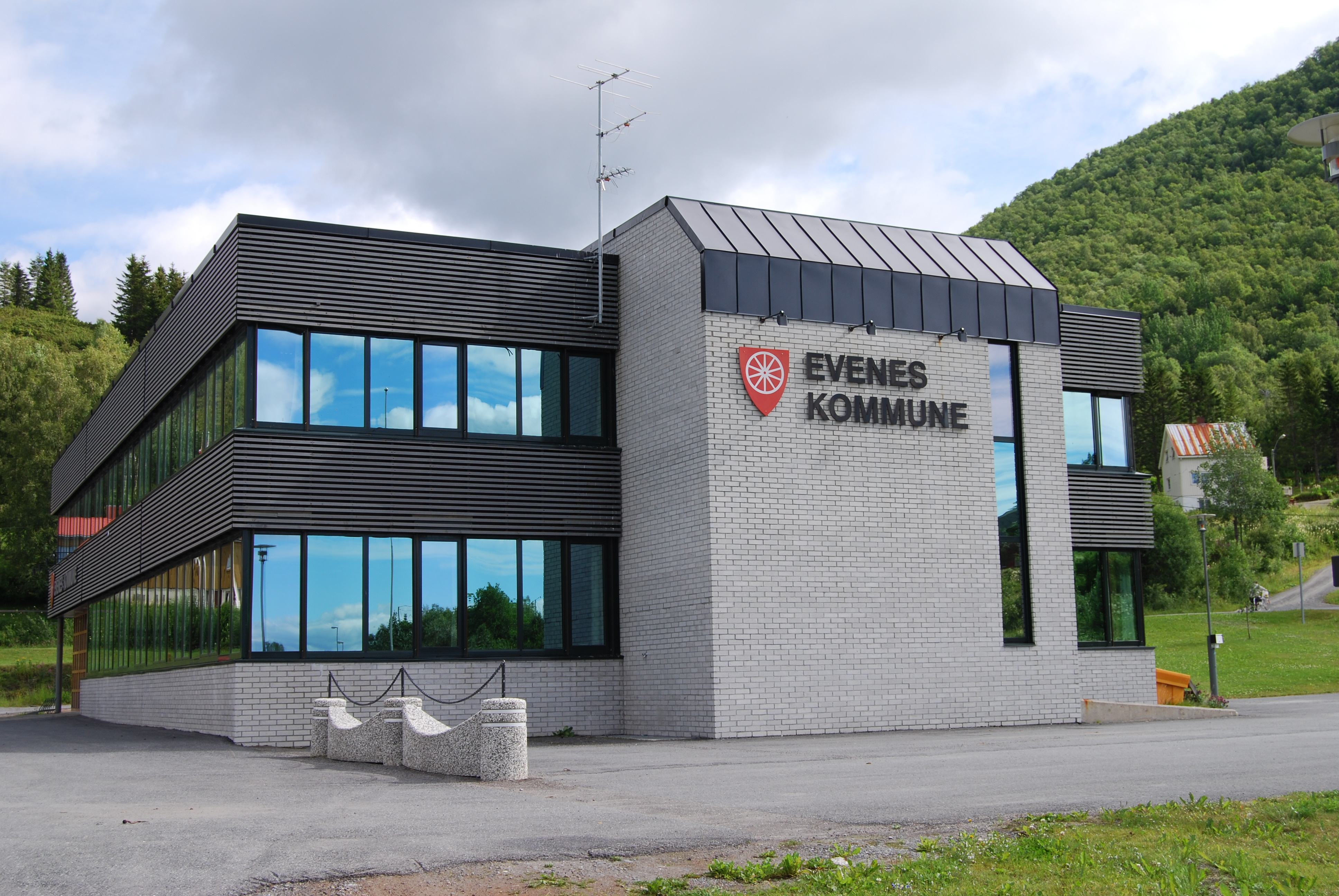 Evenes village, Evenes municipitaly, Norway.